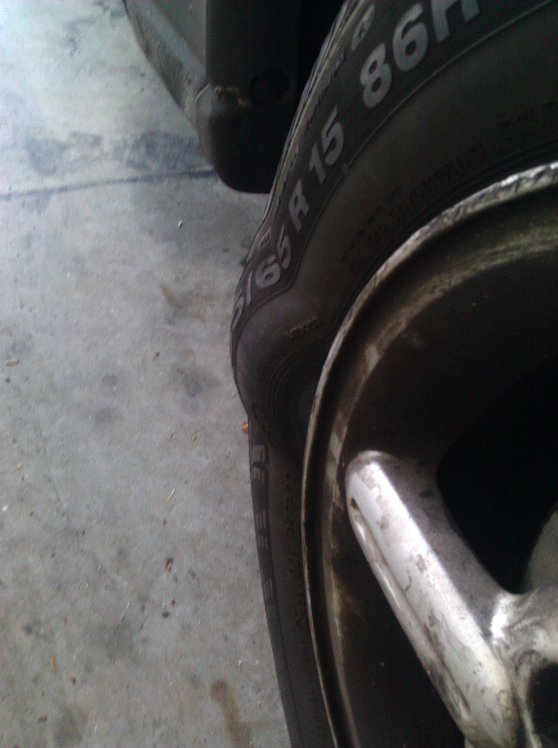 tire bubble example